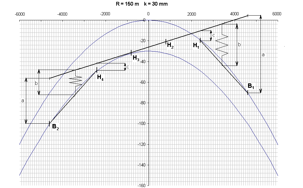 Vogel´s method for investigation of relations between rail vehicle and curved track on the geometrical basis. Here used for former ČSD class E 465.0 with two trailing axles (B1, B2) and four driving axles (H1 - H4) in the rigid frame. Trailing axle and the first driving axle on each side are coupled in Krauss-Helmholtz bogie. Lateral plays: a = 95 mm, b = 40 mm (?), c = 20 mm. Česky: Vogelova metoda uplatněná na geometrické vyšetření průjezdu obloukem pro pojezd lokomotivy řady E 465.0. Lokomotiva má dvě běžná dvojkolí a čtyři hnací uložená v rámu. Krajní hnací dvojkolí jsou spojena s běžnými do Krauss-Helmholtzových podvozků. Příčné vůle: a = 95 mm, b = 40 mm (? - obvyklá velikost), c = 20 mm.